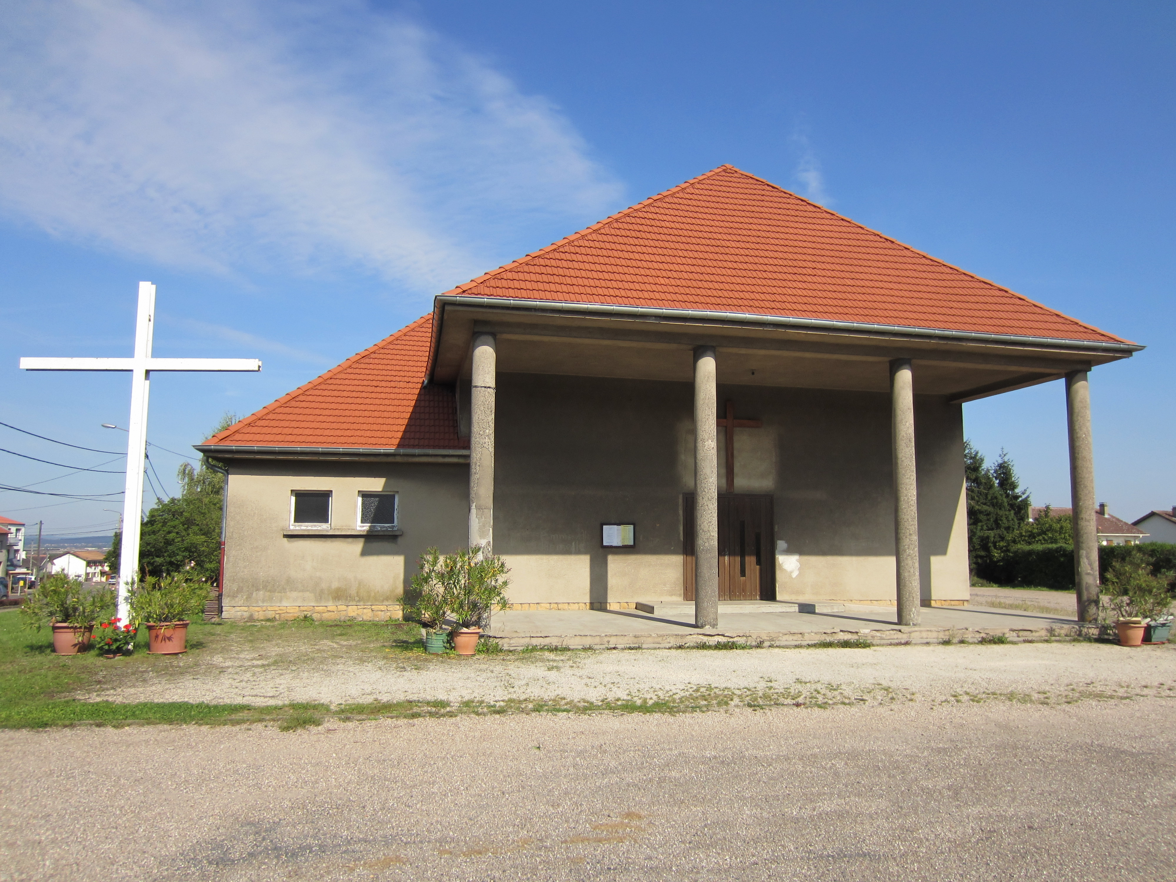 Description chapelle Silvange Date2 September 2011Sourcemon appareil photoAuthorAimelaimePermission(Reusing this file) chapelle Silvange